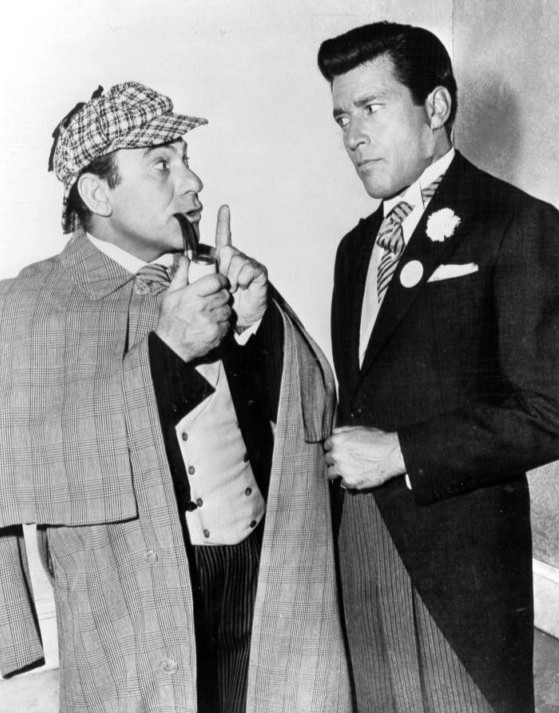 Publicity photo of Efrem Zimbalist, Jr. and Louis Quinn from the television program 77 Sunset Strip.